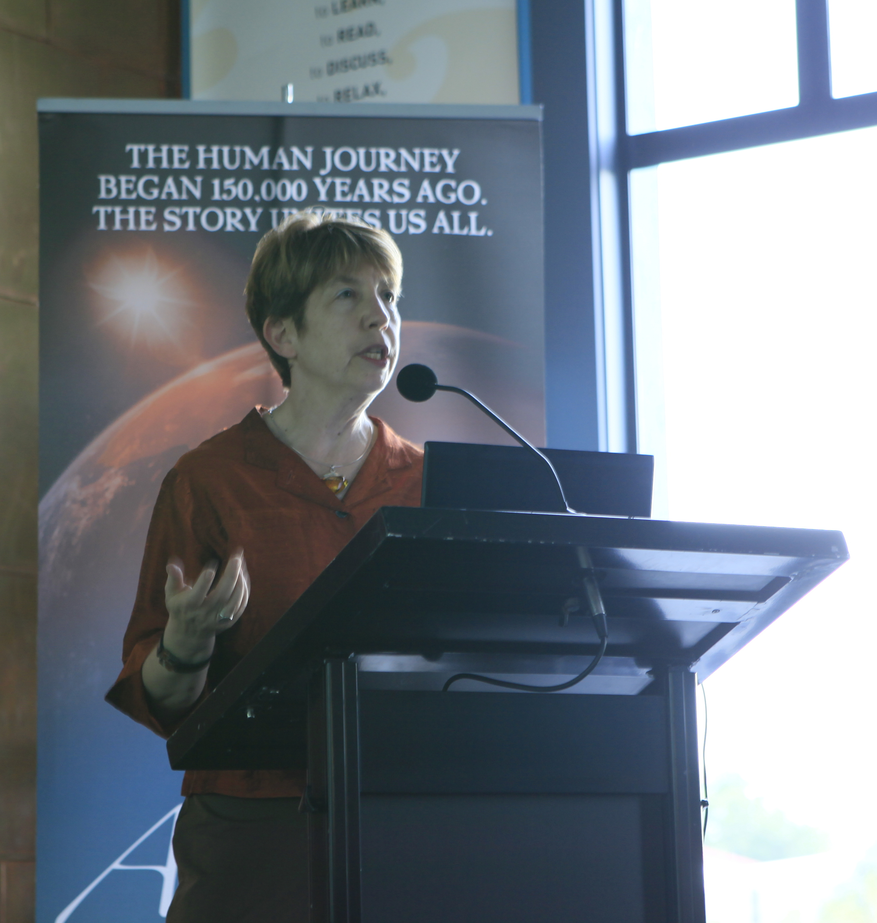 Marlene Zuk during a public talk "Paleofantasy: What Evolution Tells Us About Modern Life". Palmerston North City Library, New Zealand